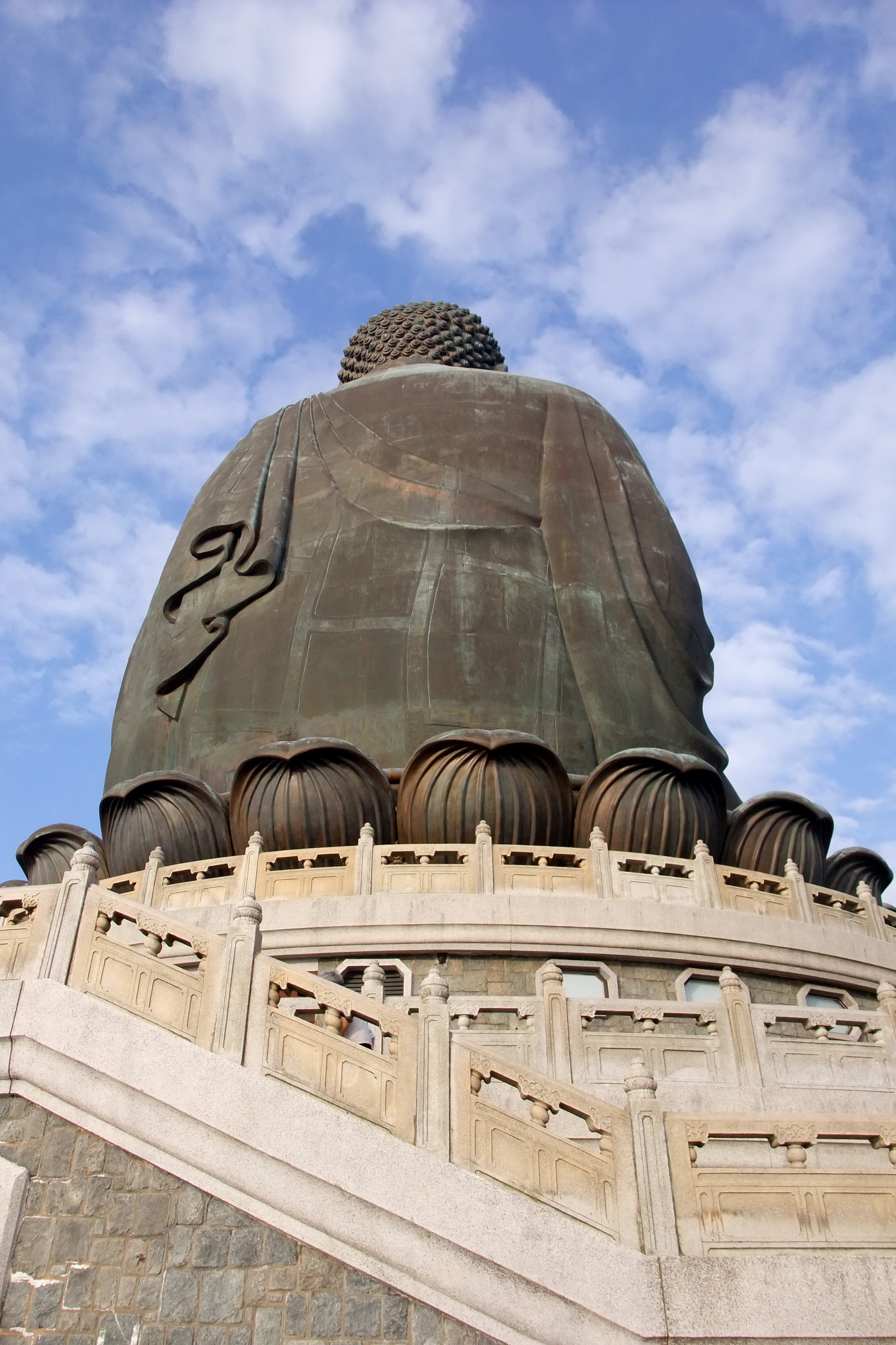 The back of the Giant Buddha (Tian Tan Buddha) located at Ngong Ping, Lantau Island, in Hong Kong.